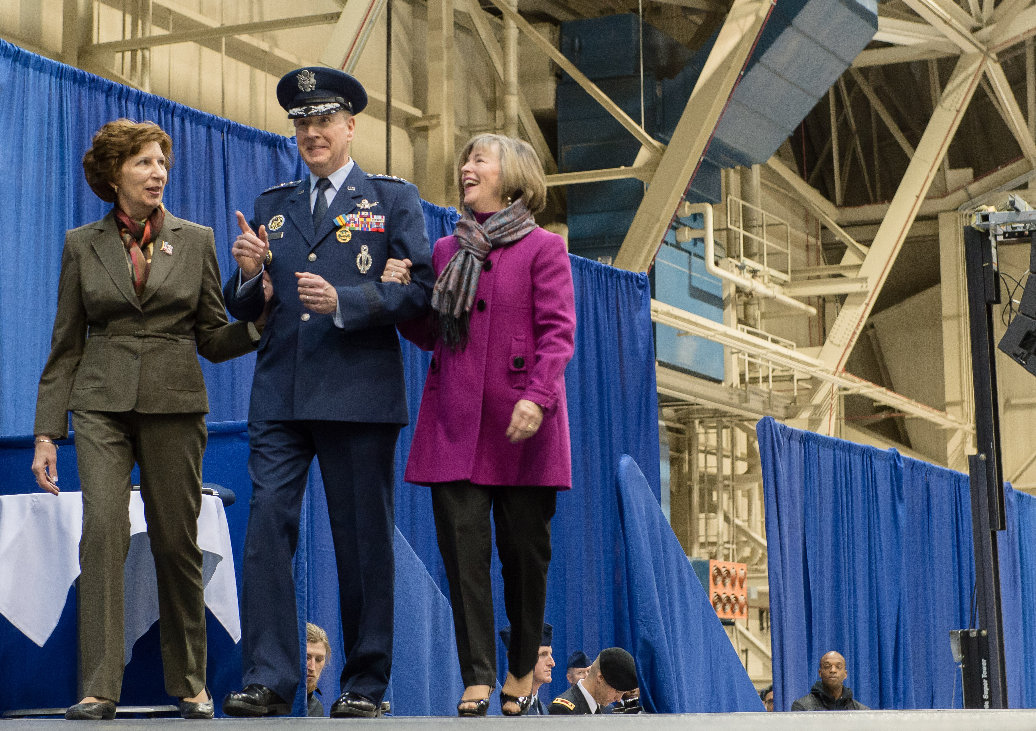 outgoing U.S. Strategic Command Commander Gen. C. Robert "Bob" Kehler and their wives stand together after receiving an award during the STRATCOM Change of Command and retirement ceremony